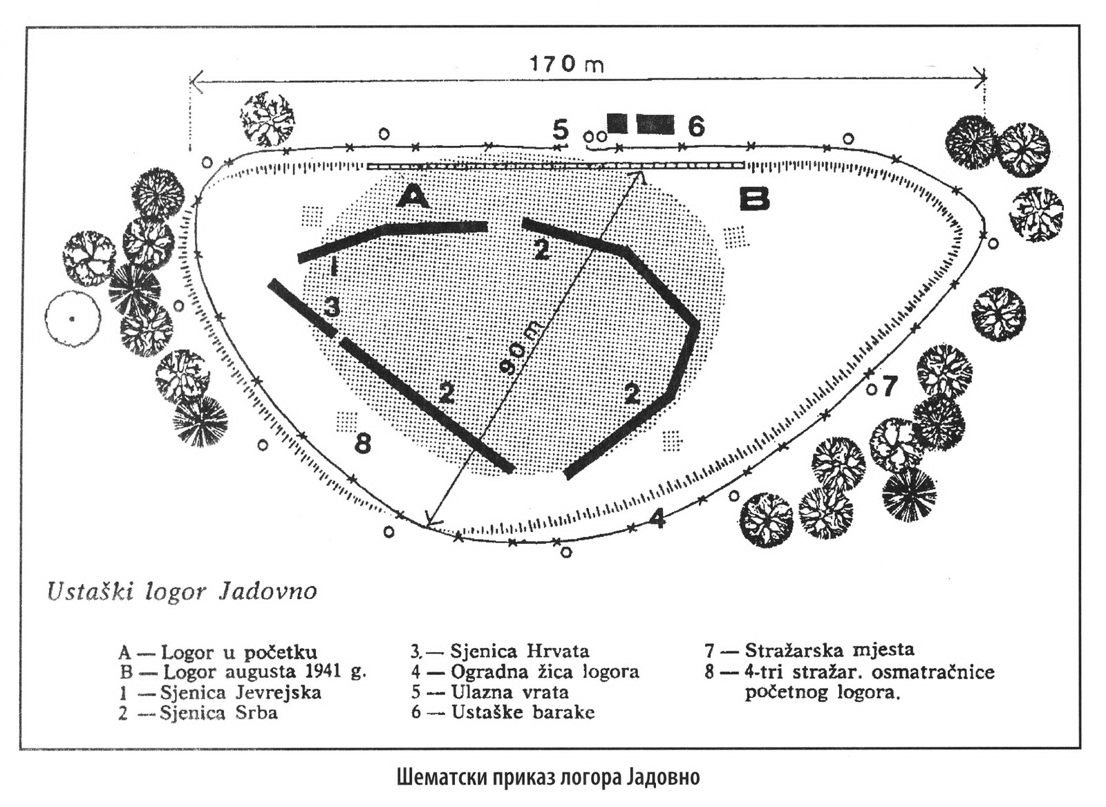 Шематски приказ концентрационог логора Јадовно